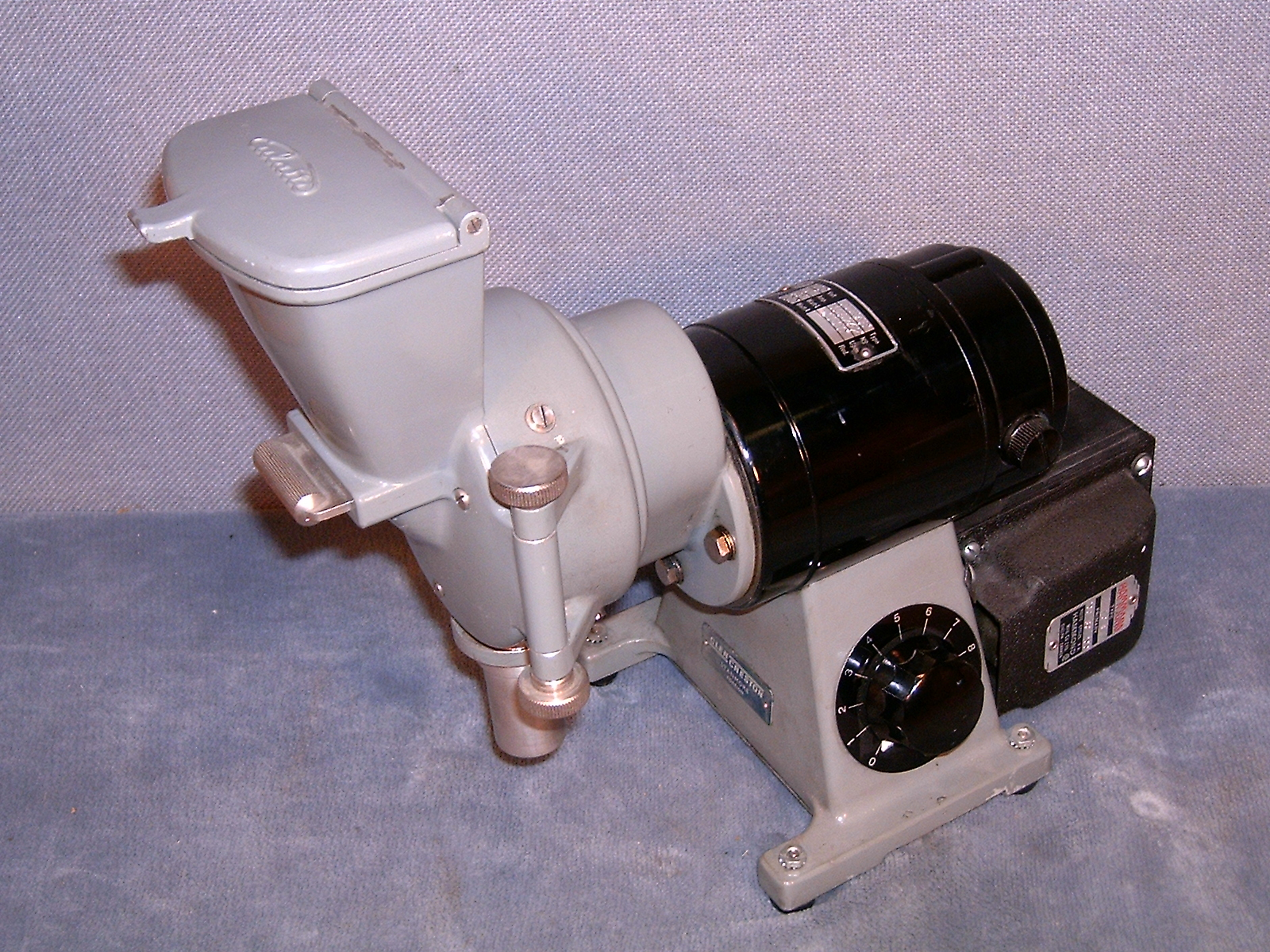 A Glen Creston Stanmore tabletop hammer mill. The input hopper is part of the front door, closed in this view, with a sliding panel at the neck to control input.